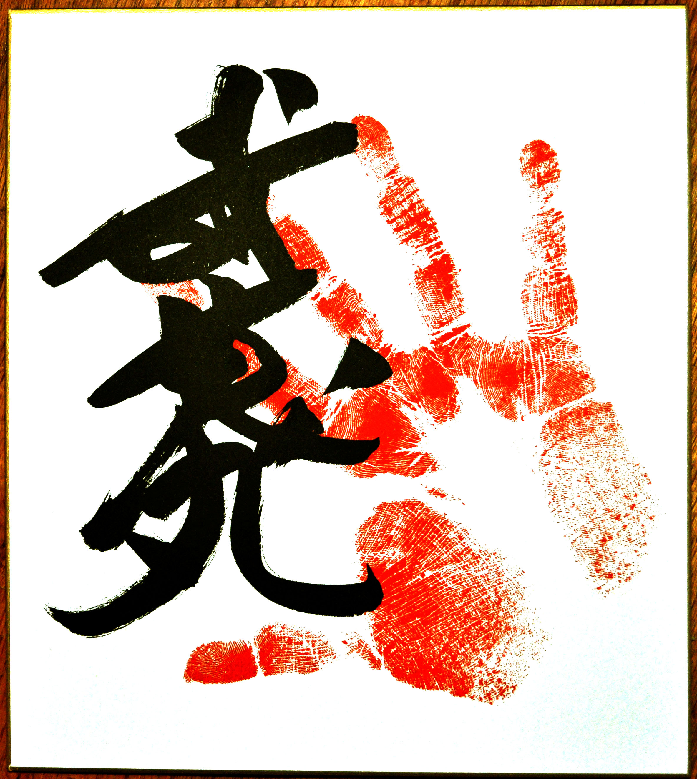 Tegata (hand print autograph) of Musashimaru Koyo (武蔵丸 光洋), born May 2, 1971 as Fiamalu Penitani in American Samoa was a former sumo wrestler. He was the second foreign-born sumo wrestler in history to reach the rank of yokozuna.